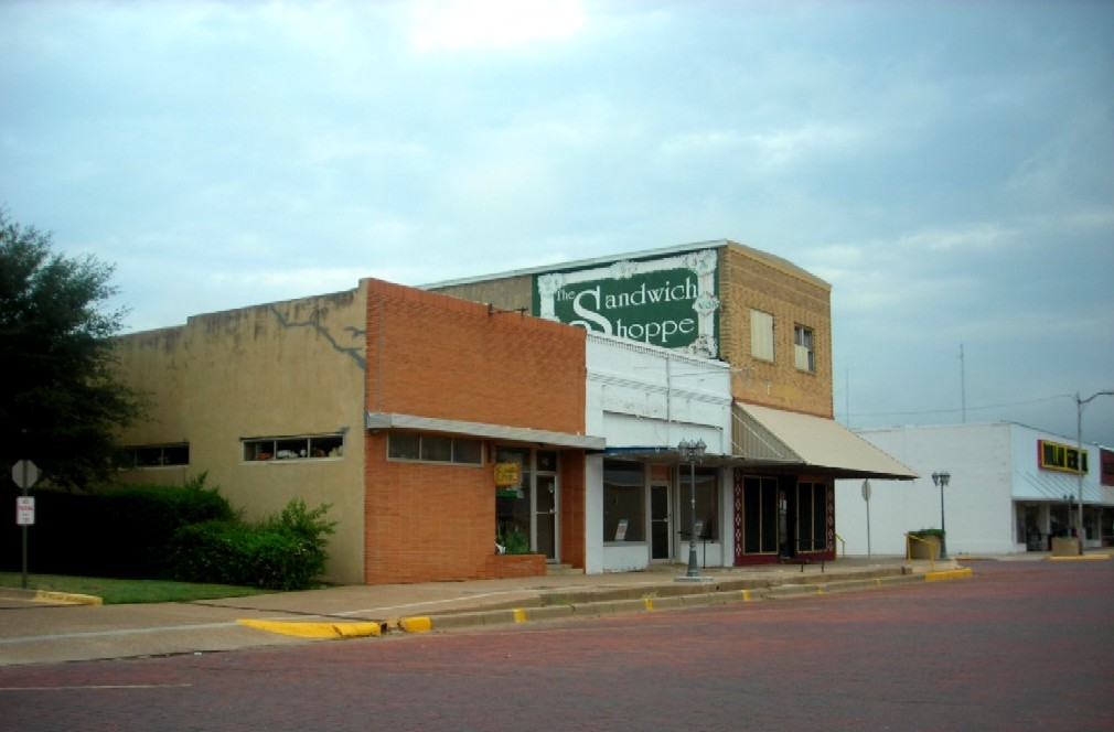 A row of shops in Seymour, Texas.